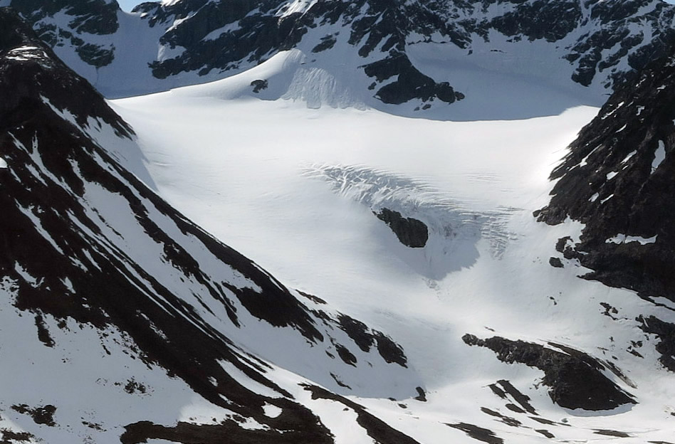 Isfallsglaciären, Sweden